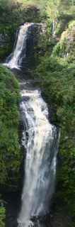 Brian Edwards September 2005